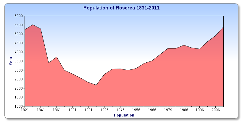 Graphical representation of population statistics for Roscrea, Co. Tipperary, Ireland, 1831-2011